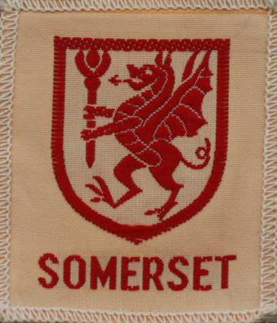 The badge of Somerset County Scout Council, the Scout Association of the United Kingdom.